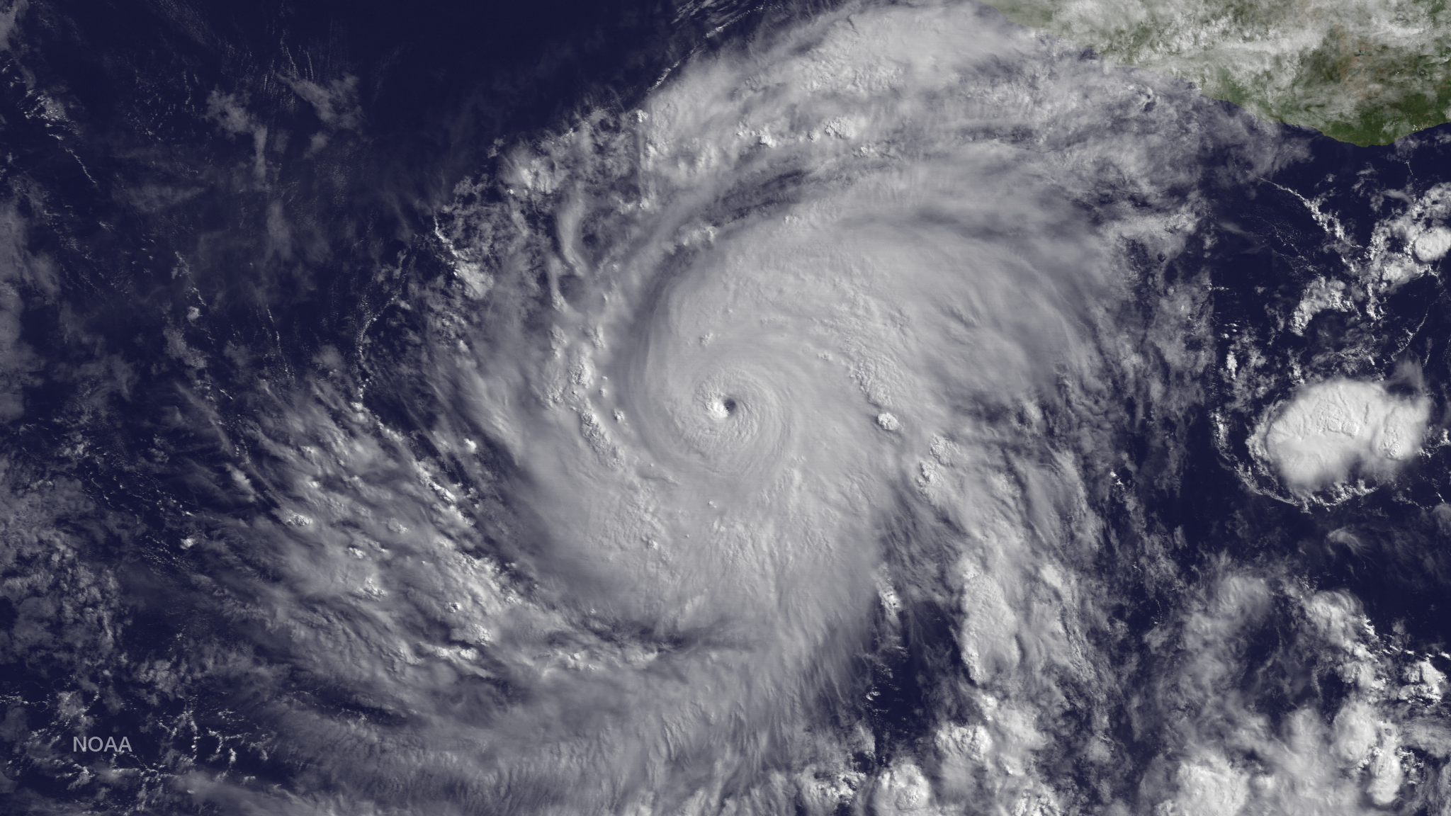 Blanca has rapidly intensified with an increase in wind speed of 60 knots since 1200Z on June 2. The hurricane has developed a distinct pinhole eye in visible images surrounded by very deep convection. There is an opportunity for Blanca to intensify further since the hurricane is located within an ideal environment of low shear and high ocean heat content. Beyond 48 hours, the hurricane will encounter lower SSTs and a gradual weakening should begin. During the next 24 hours, the hurricane should begin a northwestward track with some increase in forward speed becoming a potential threat to Baja California in a few days. This image was taken by GOES East at 1445Z on June 3, 2015.